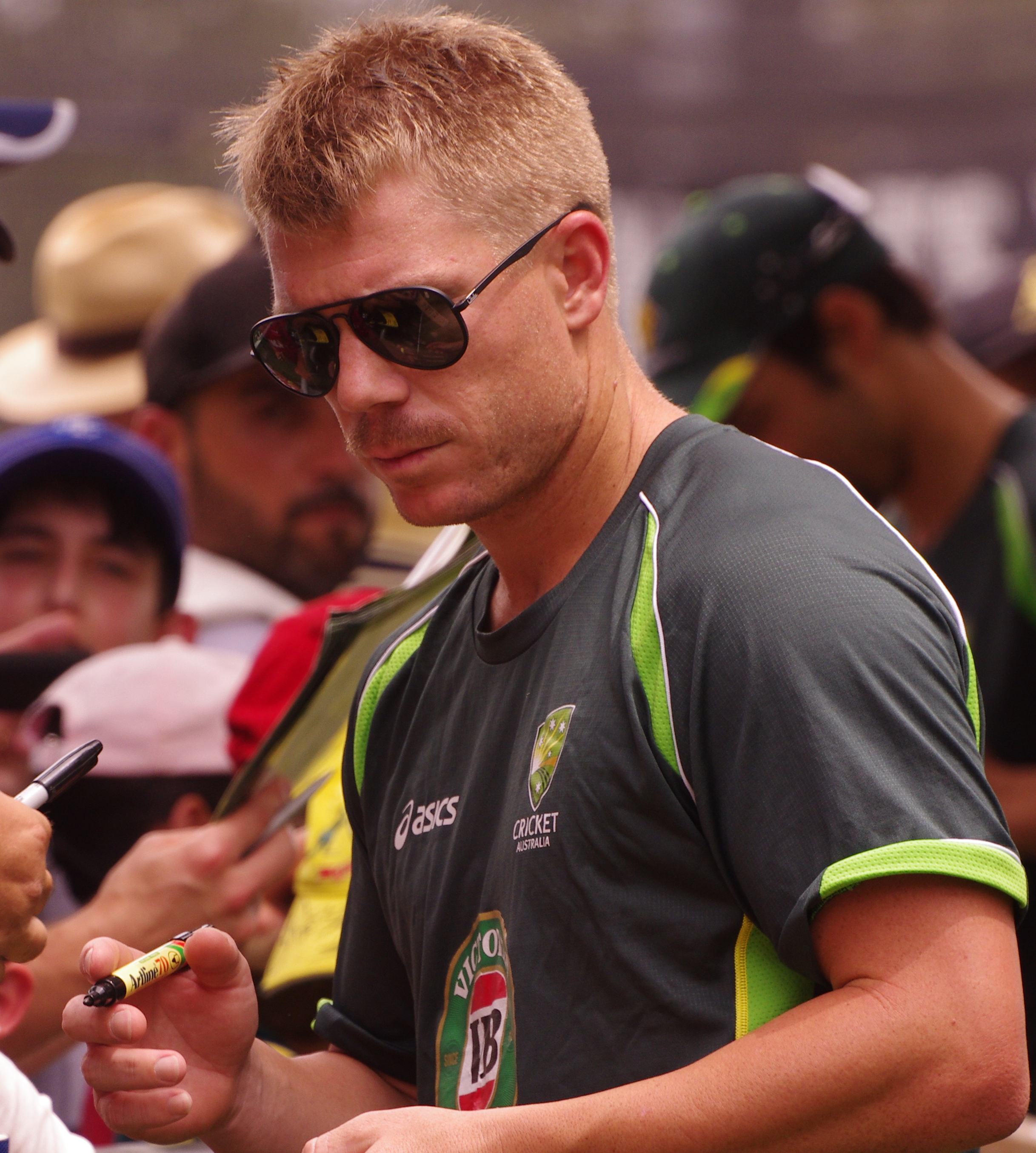 Australian cricketer David Warner signs an autograph at Sydney in 2014